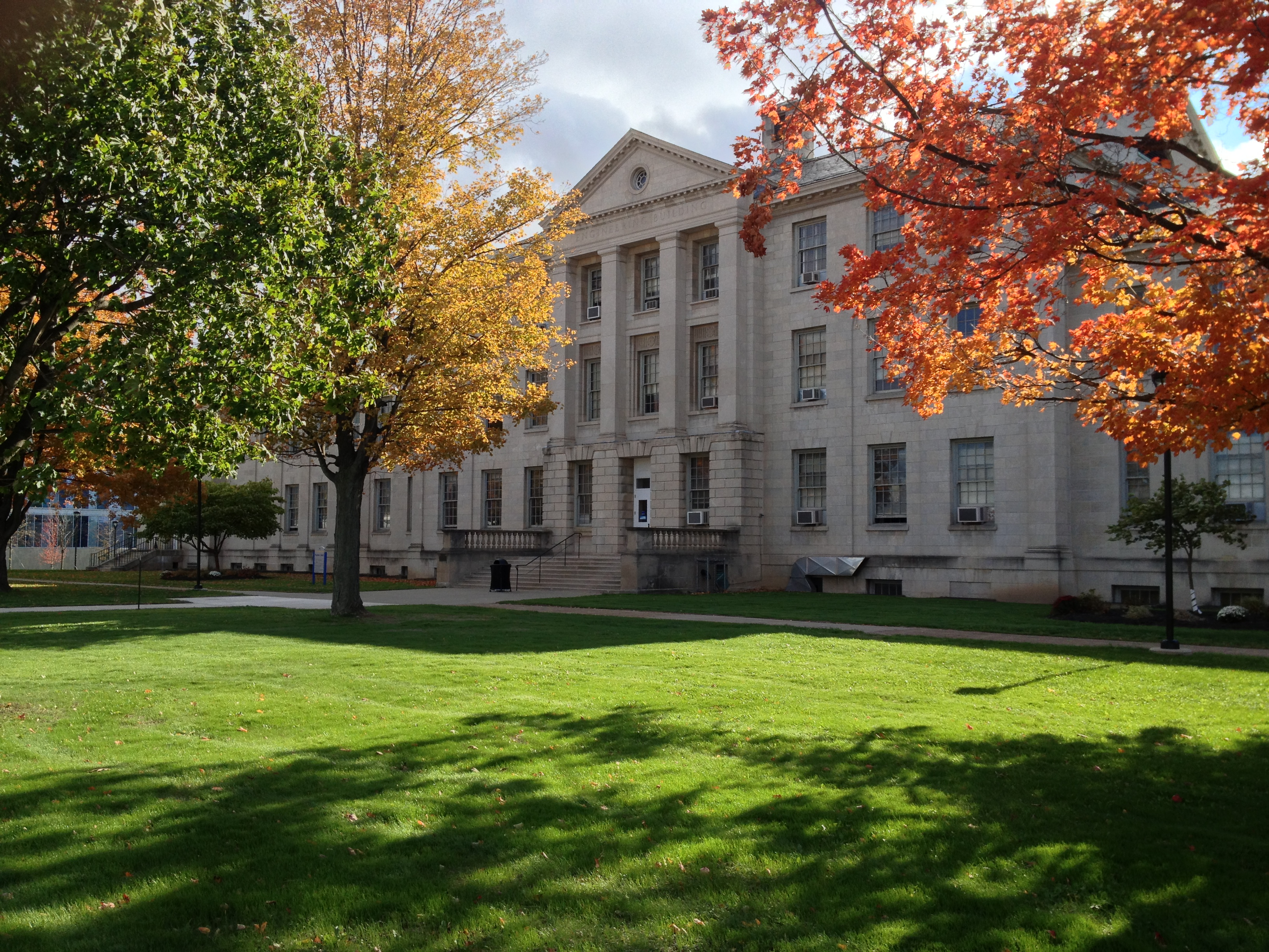 Parker Hall on UB's South Campus